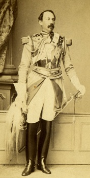 Colonel Baron Albert Jacques Verly, commanding officer of the Cent-Gardes Regiment during the Second French Empire.